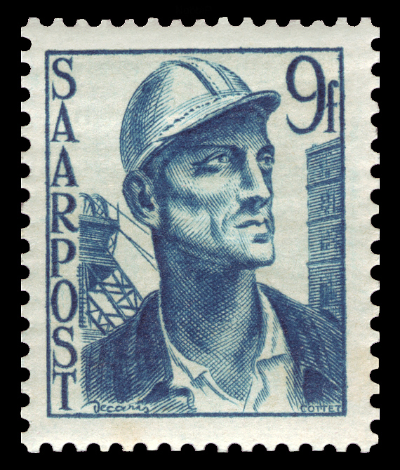 definitive stamp series Reconstruction of the Saarland (also known as Saar III)